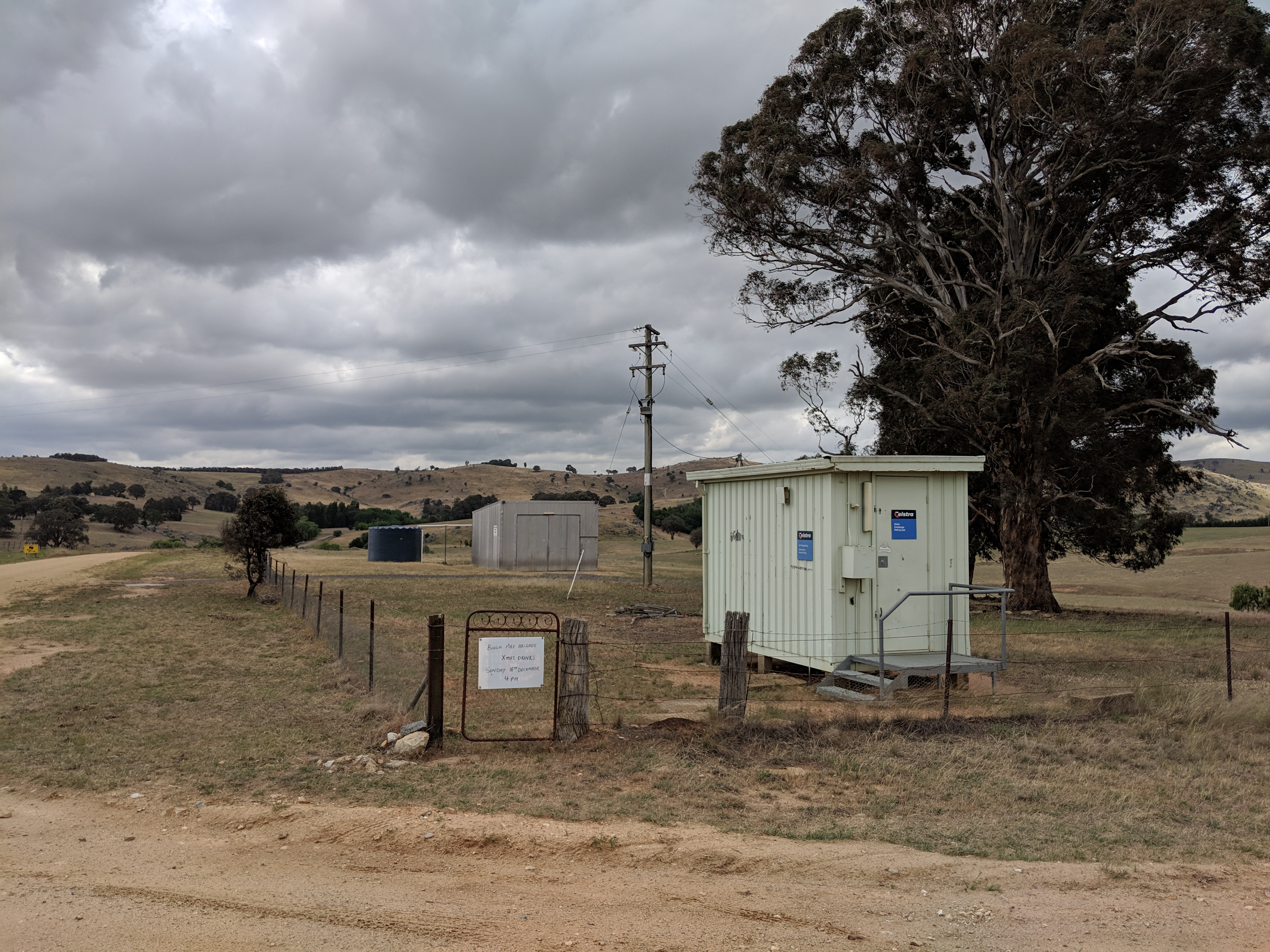 Telephone exchange and bush fire brigade, Biala, New South Wales